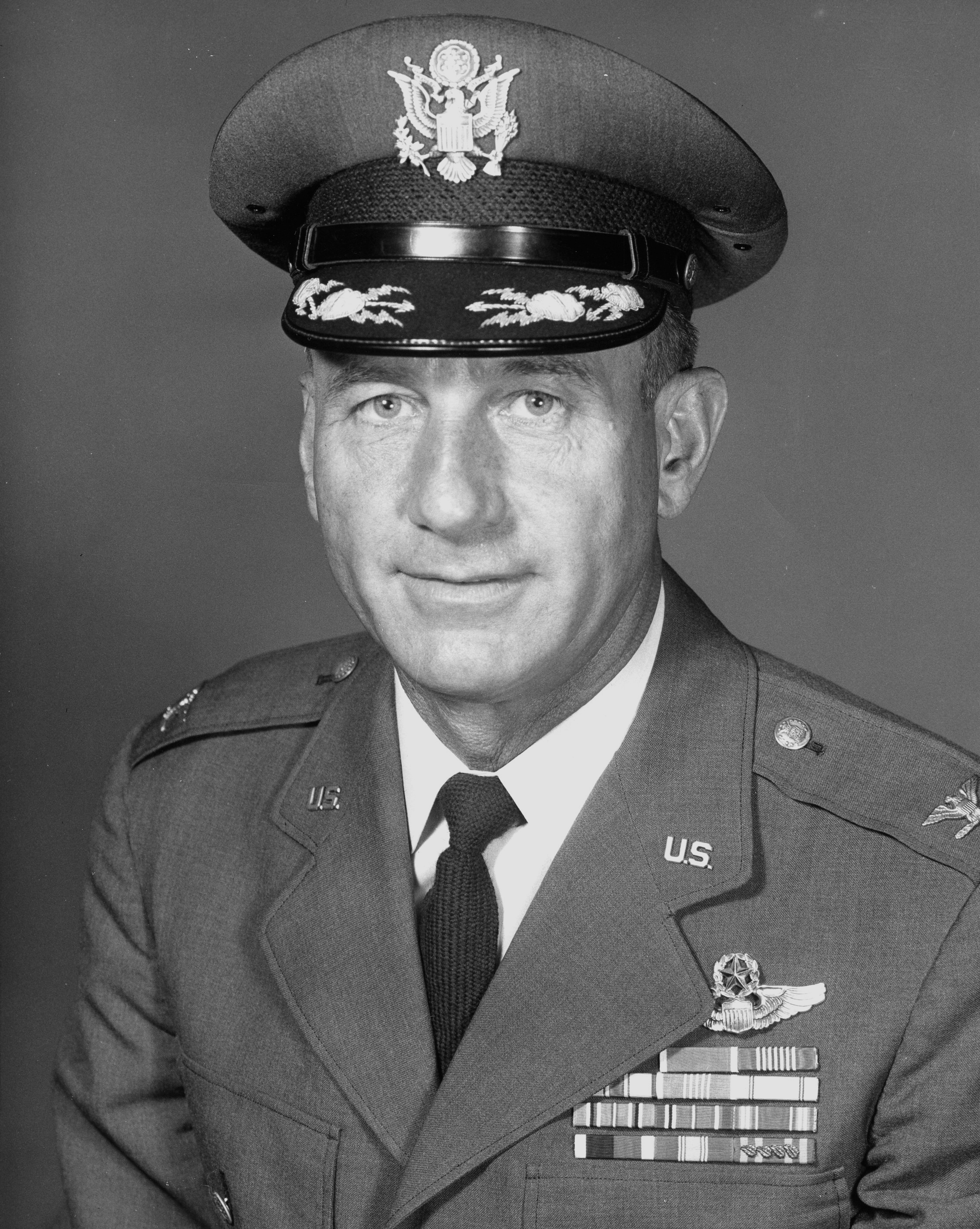 US Air Force Colonel Harry Shoup came to be known as the "Santa Colonel" after initiating "NORAD Tracks Santa" entertainment program for children in 1955. He died in 2009.